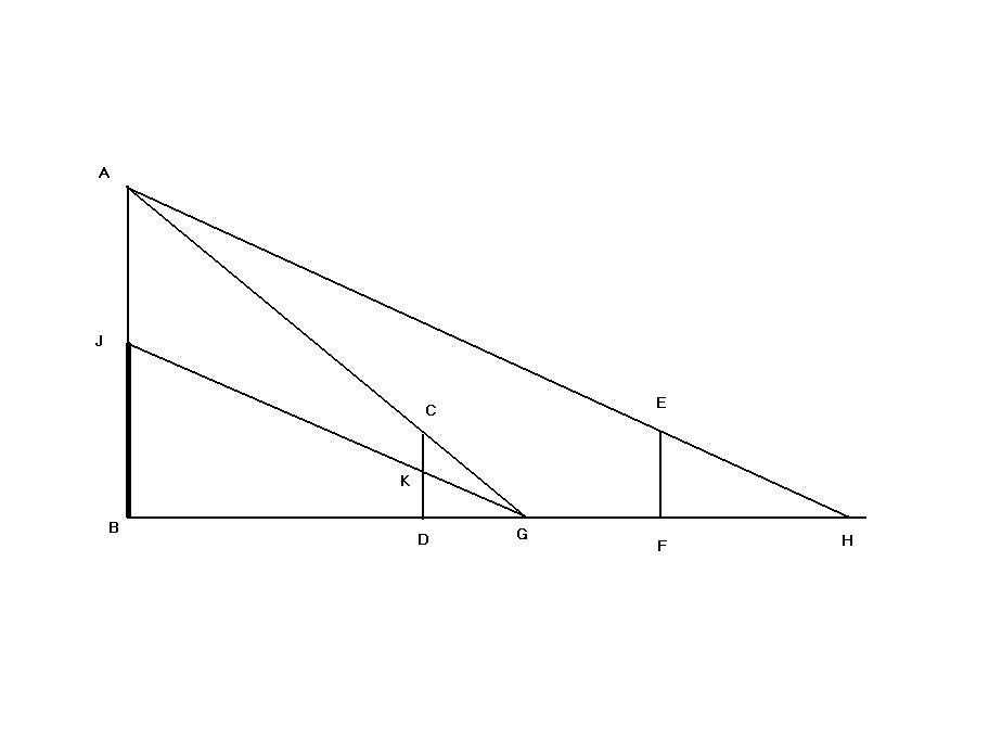 Sea Island Mathematic manual Q2 《海岛算经》松生山上三次测量示意图